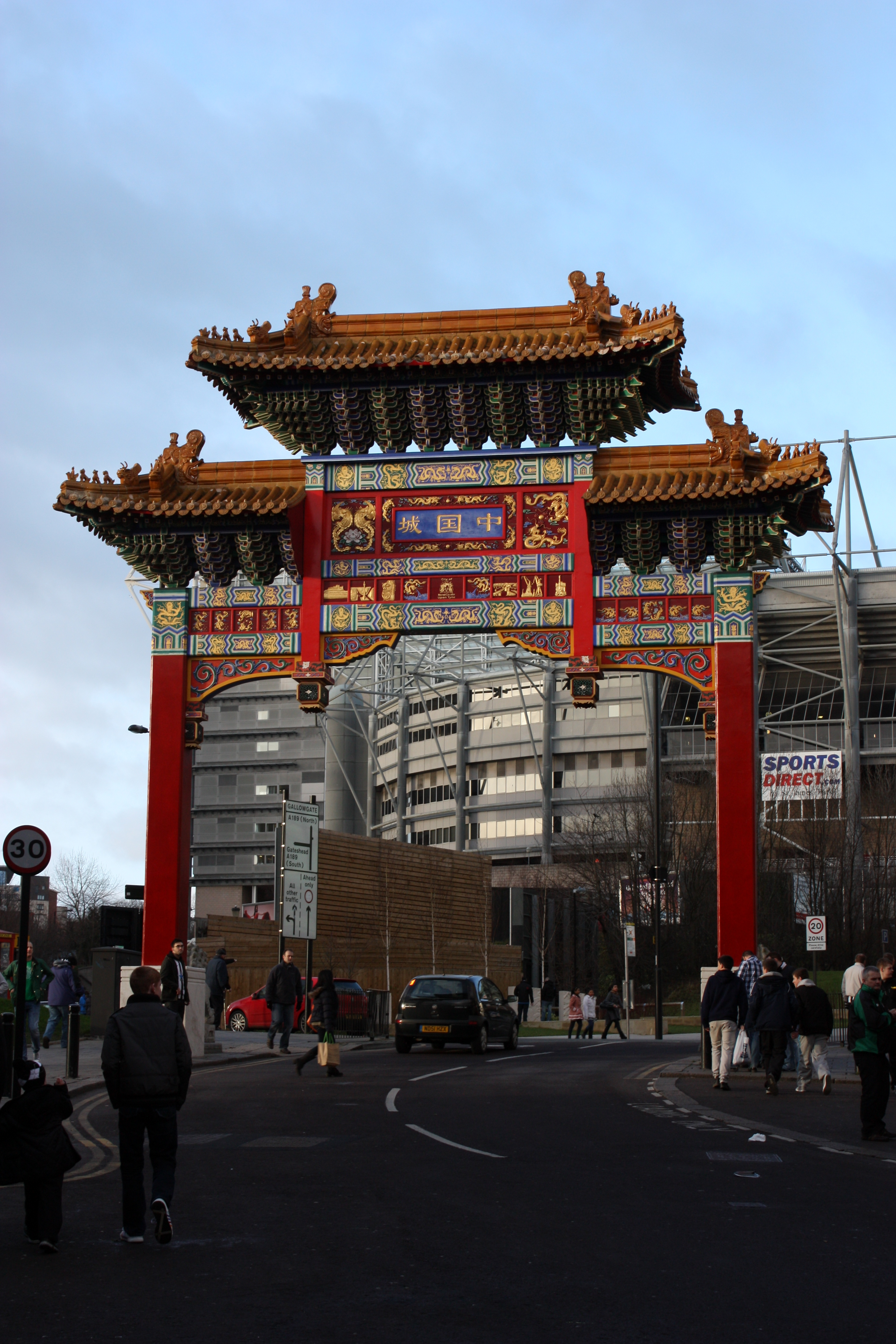 China Town